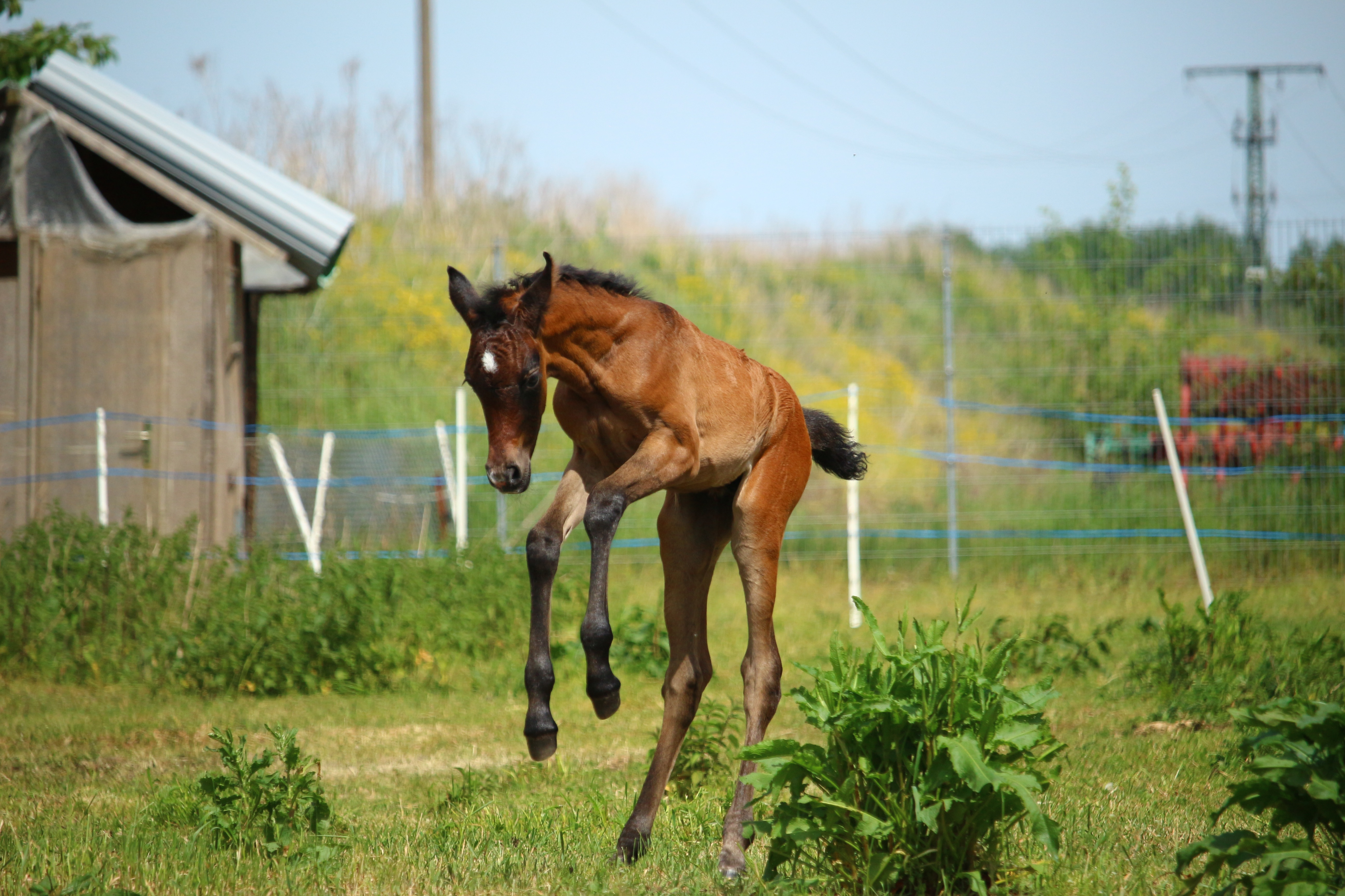 Foal jumping